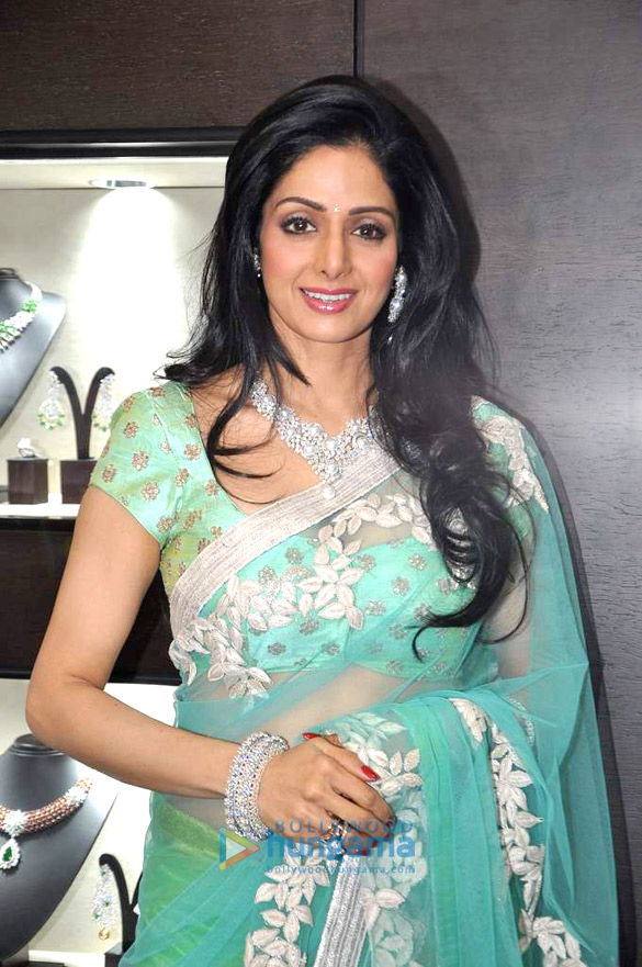 Sridevi at the launch of Begani Jewels